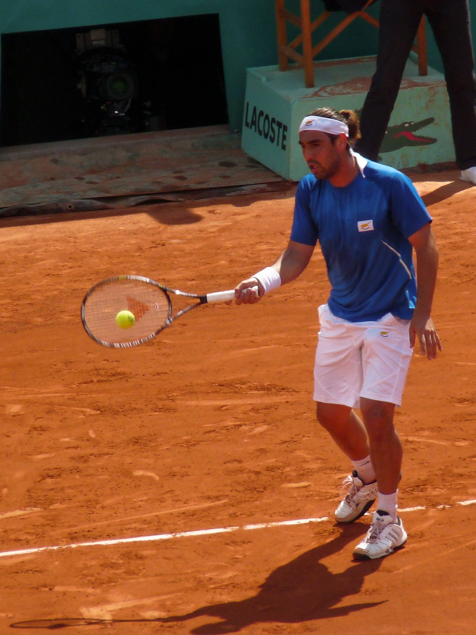 Andy Murray vs Marcos Baghdatis